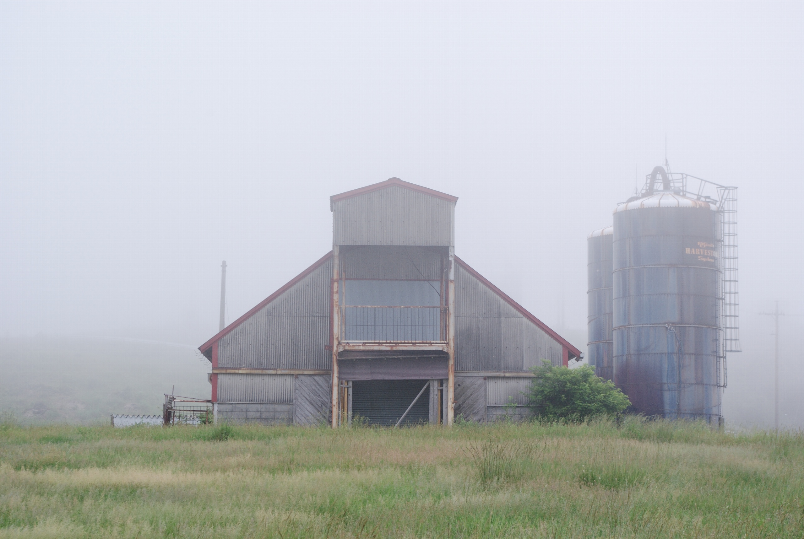 Nishinagura, Shitara, Kitashitara District, Aichi Prefecture 441-2431, Japan